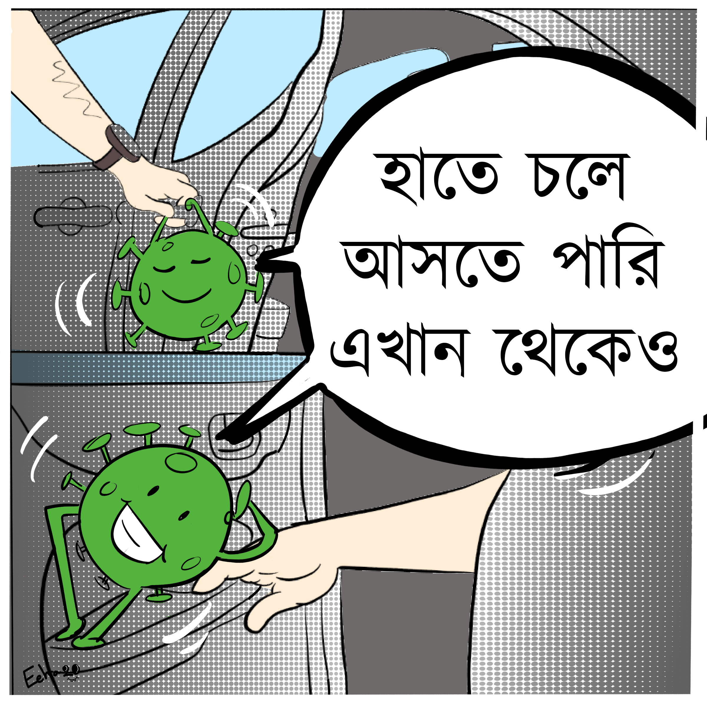 Artist, Visualization & dialogue : Anika Nawar Eeha Concept: Abdullah Al Mamun